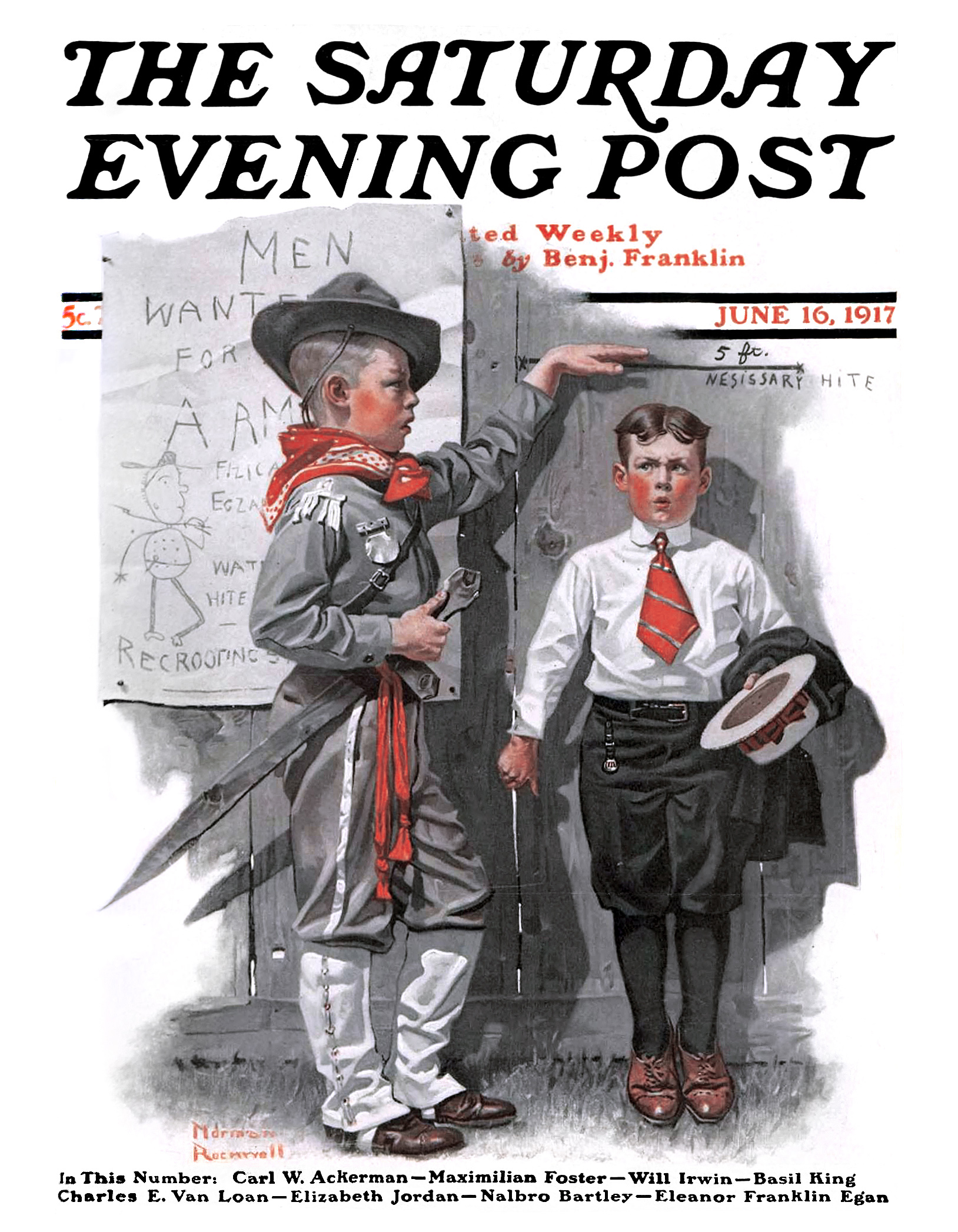 Saturday Evening Post cover – "Necessary Height" by Norman Rockwell.